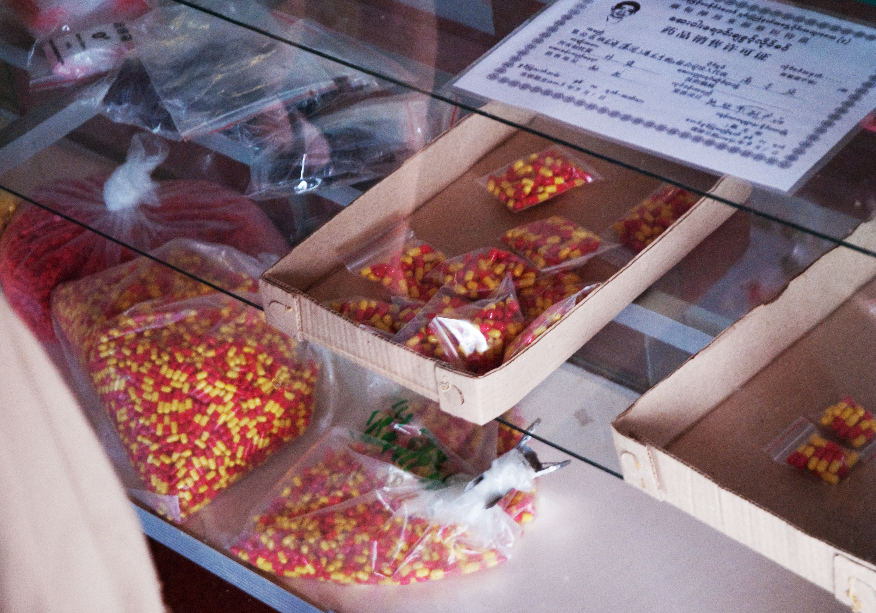 Product of Sun Bear Bile Extraction Operation in Möng La, Shan, Myanmar